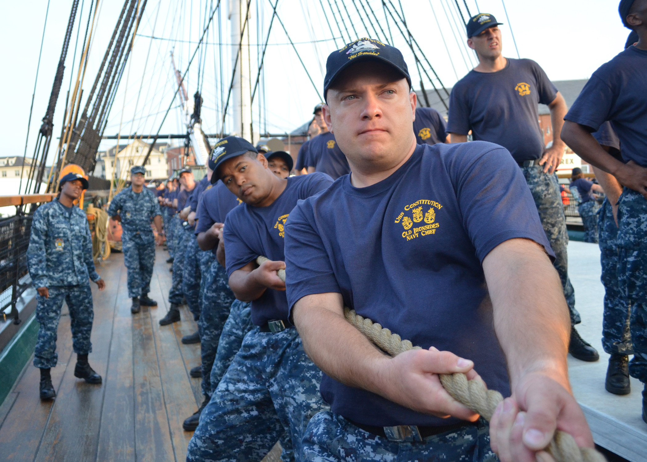 CHARLESTOWN, Mass. (Aug. 17, 2012) Chief petty officer selectees haul on a line during sail training as part of USS Constitution's Chief Petty Officer Heritage Weeks. The selectees will live and train aboard Constitution, the world's oldest commissioned warship afloat. (U.S. Navy photo by Mass Communication Specialist Seaman Michael Achterling/Released) 120817-N-BJ178-092 Join the conversation navylive.dodlive.mil